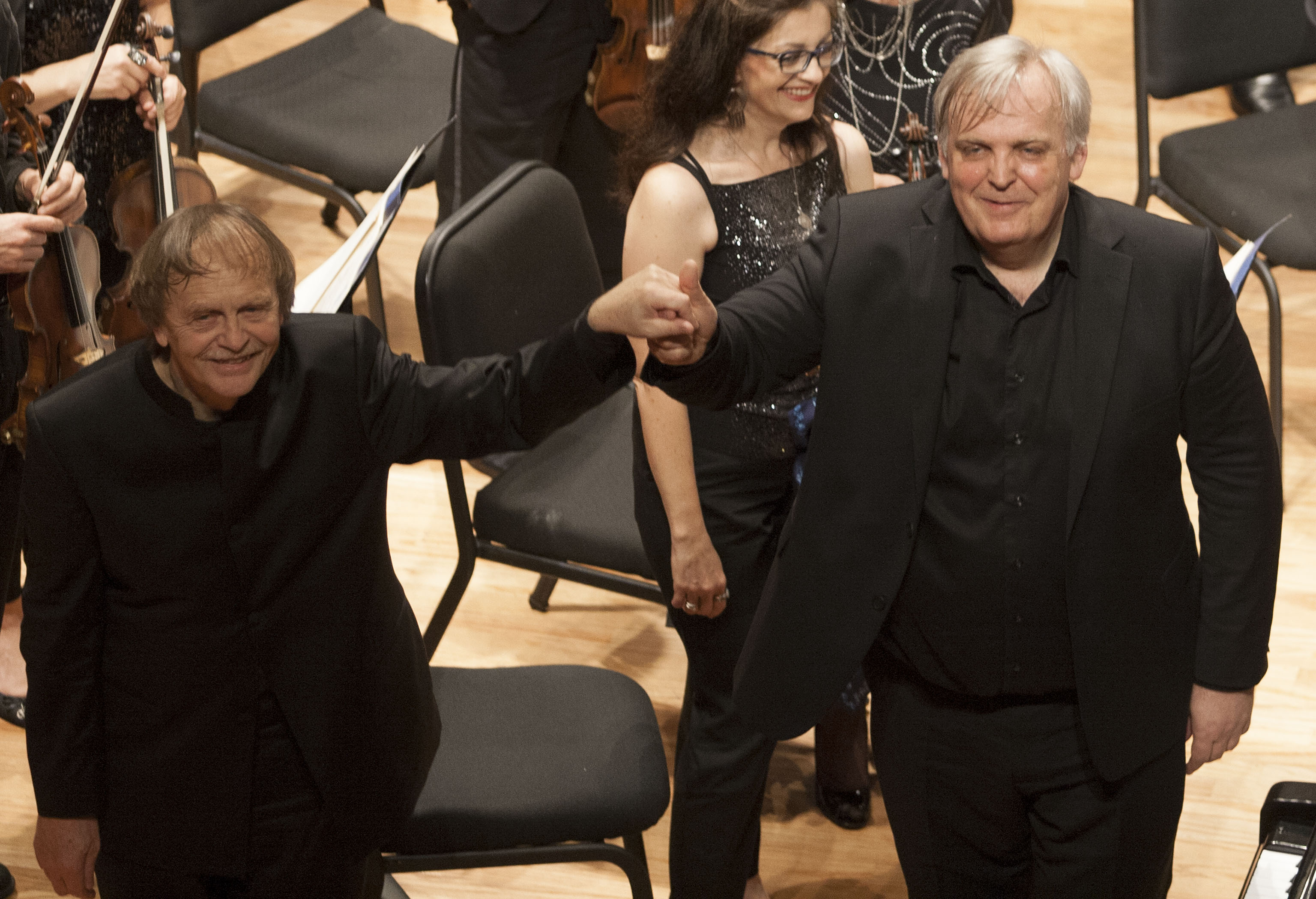 Sunday, June 07, 2015. Mexico City's Philharmonic Orchestra played music by Evard Grieg and Sigurd Jorsalfarm under host conductor Bjarte Engeset and having concert pianist Hakon Austbo. Photo by Abril Cabrera A. / Cultural Secretariat Mexico City.